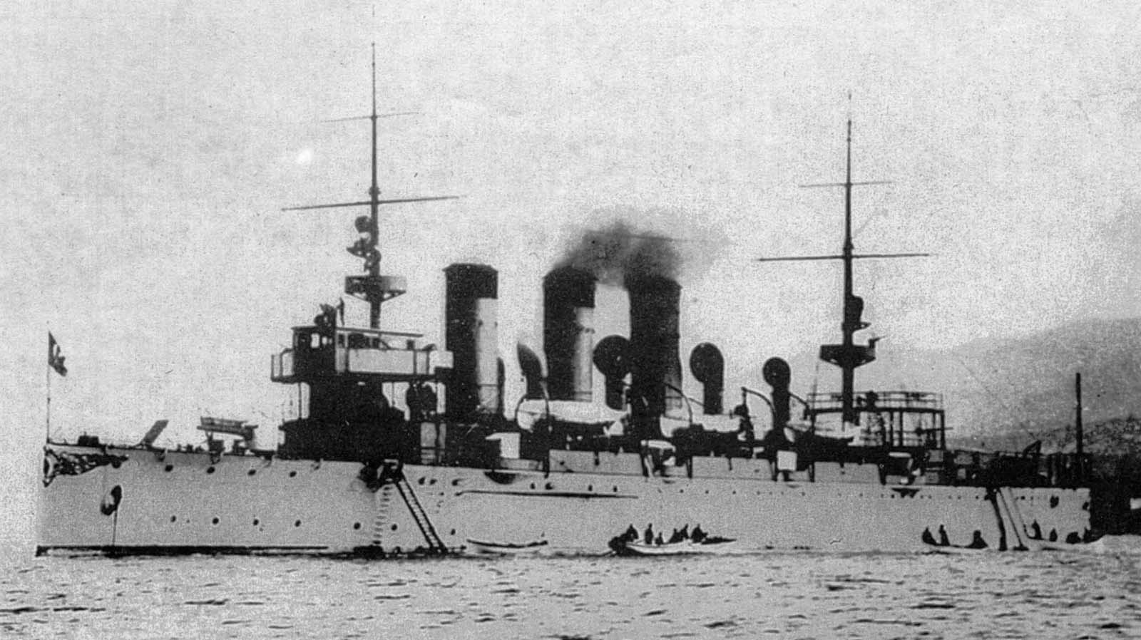 Ottoman cruiser Mecidiye before WWI.